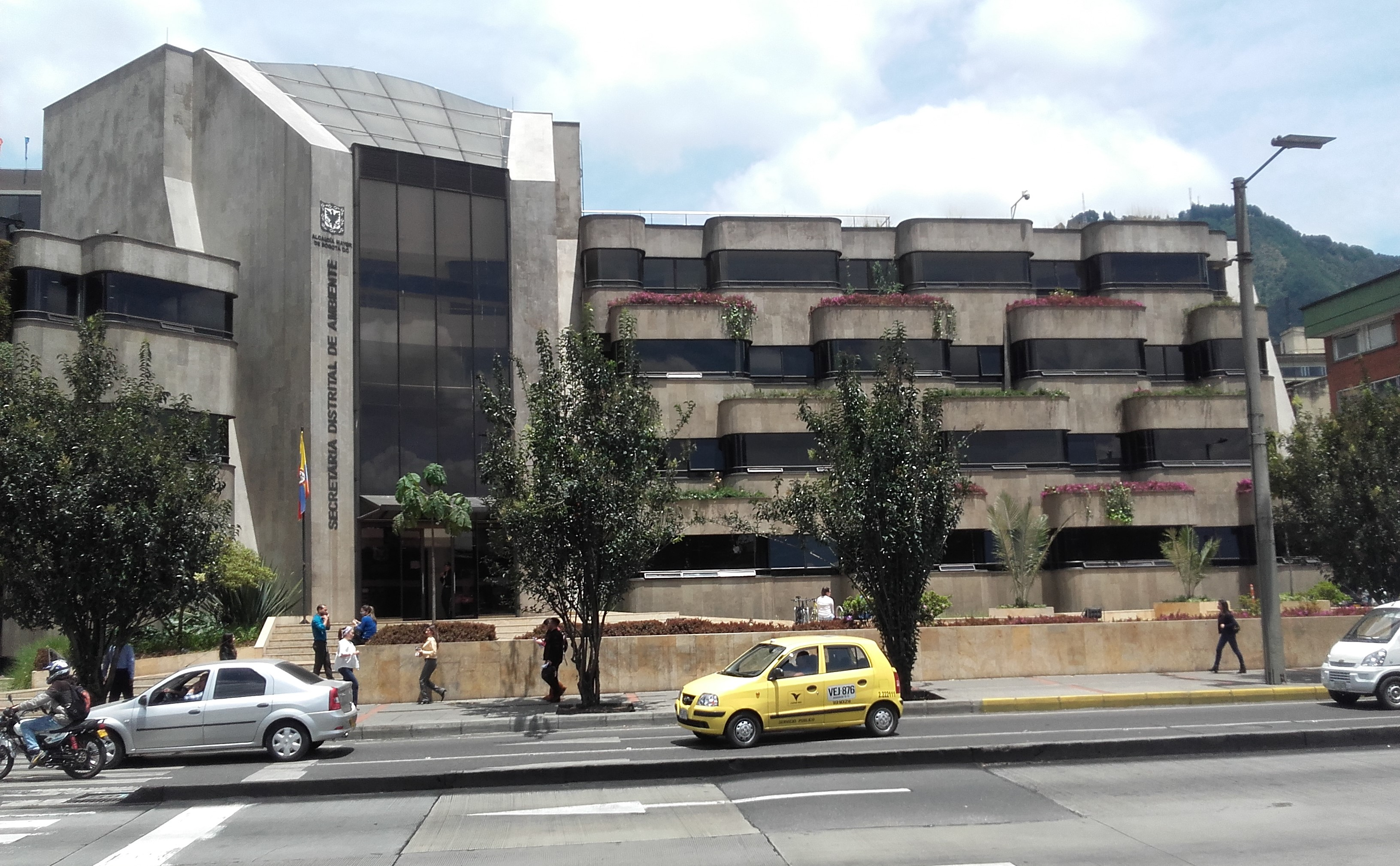 Secretaría de ambiente de Bogotá Av Caracas